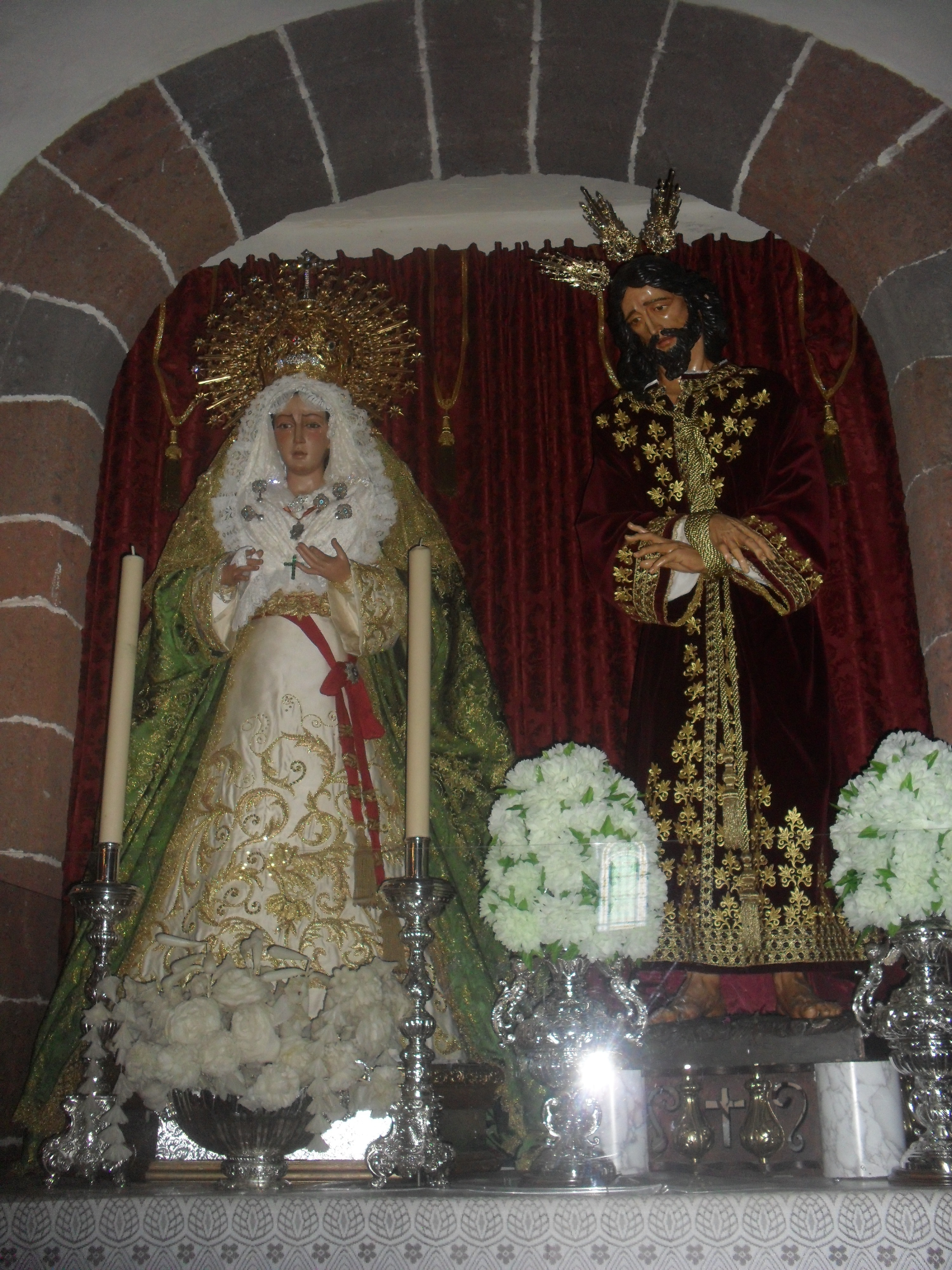 Imágenes de Jesús Cautivo y Esperanza Macarena en la Iglesia de la Concepción de Santa Cruz de Tenerife.